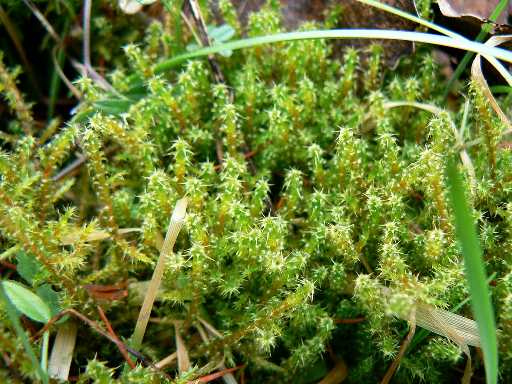 Rhytidiadelphus squarrosus, Brasschaat, Belgium